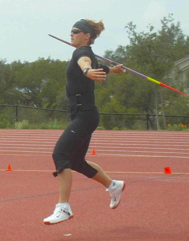 Kim Kreiner — throwing the javelin at Westmont College in Montecito, Southern California. On March 30, 2012.